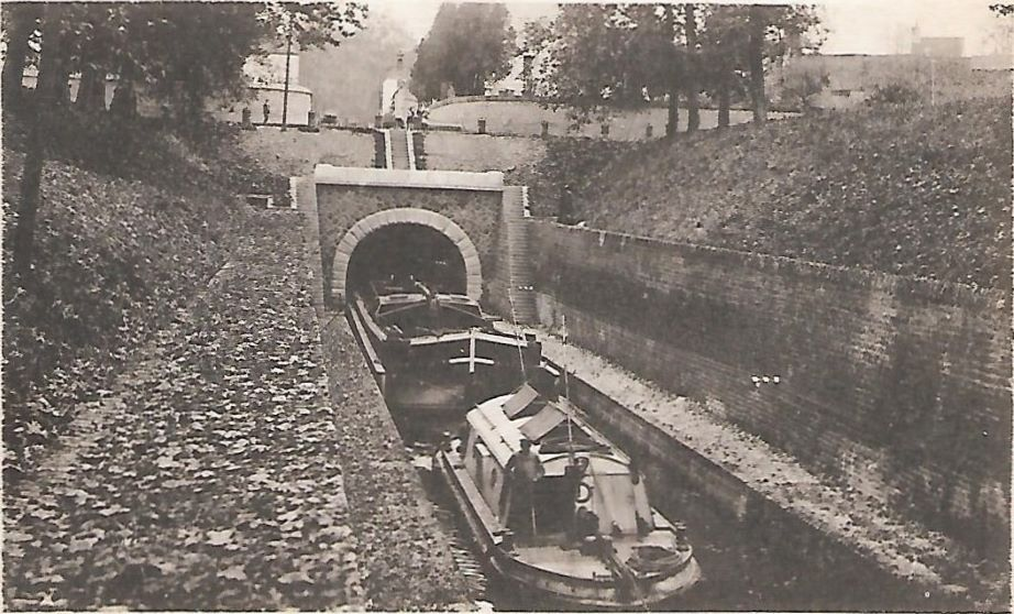 Trolleyboat at the tunnel of the Canal de Bourgogne